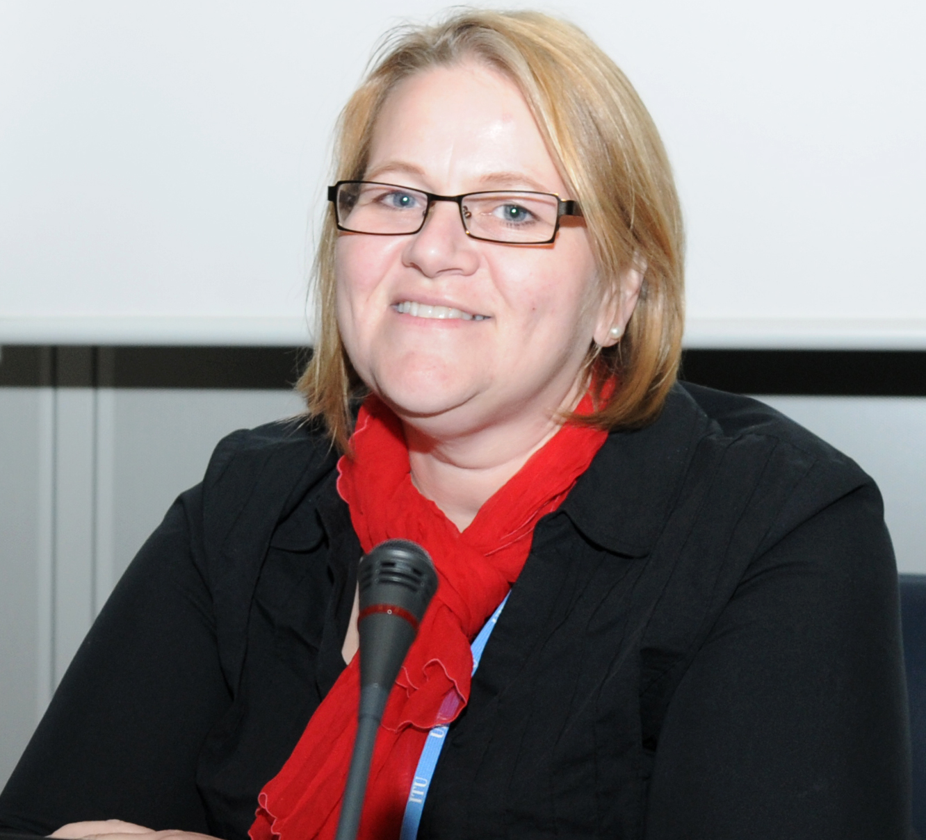 Ruthe FARMER, Director of Strategic Initiatives, National Center for Women & Information Technology